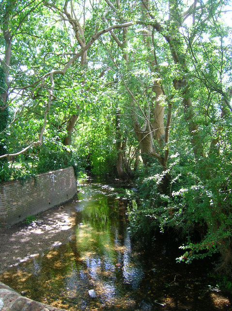 River Ems, Westbourne. The bourne from which the village gained its name. Taken from the bridge at North Street.